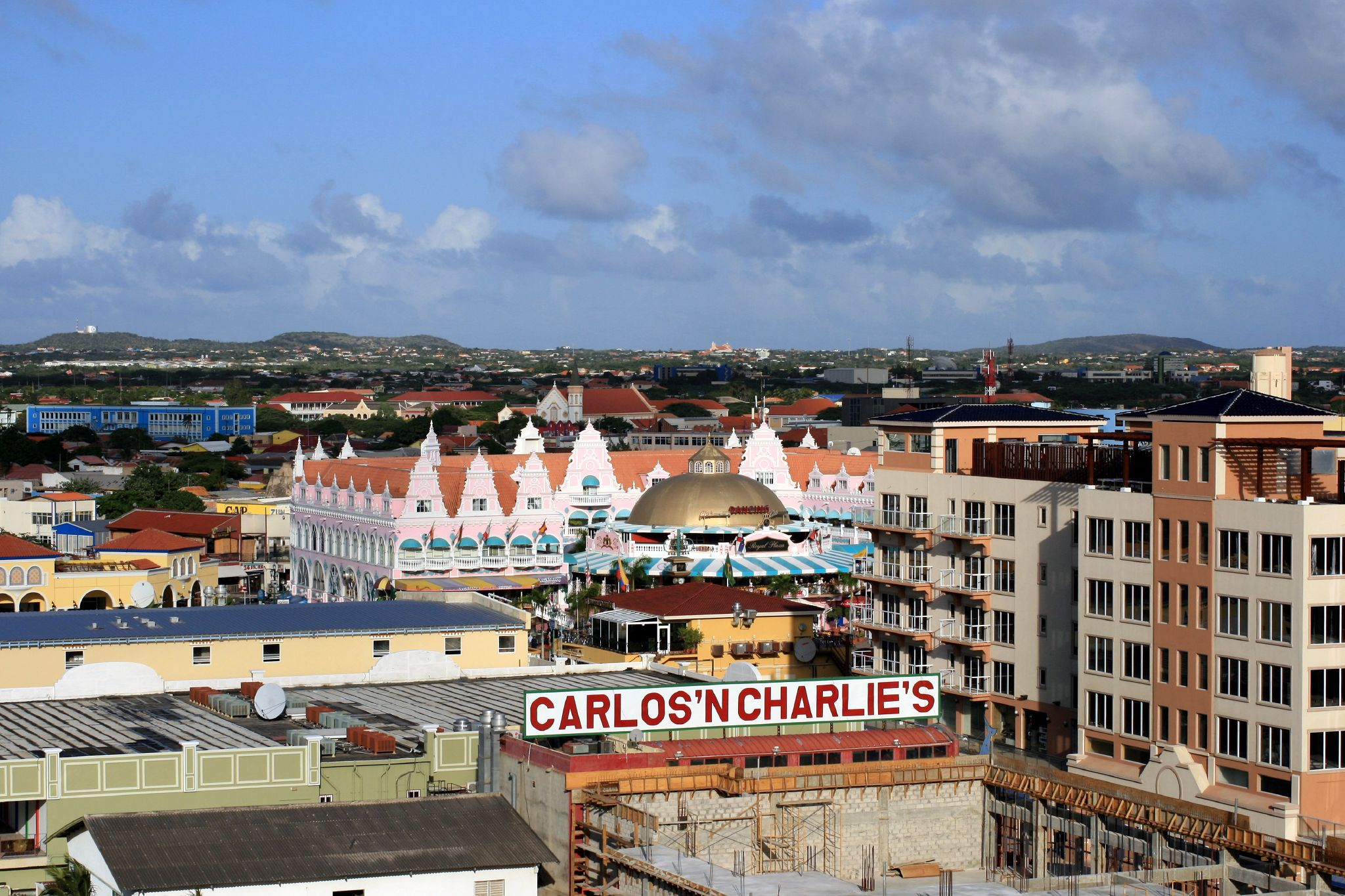 Carlos'n Charlie's (now Señor Frog's) in downtown Oranjestad, Aruba.